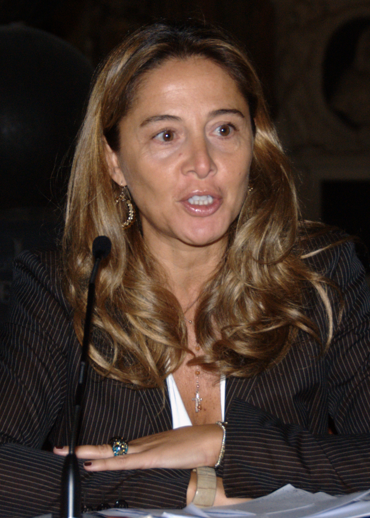 Erminia Mazzoni at the Palazzo della Ragione in Padua for YoUniverCity 2010, European forum for the right to education.